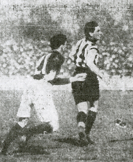 Photograph of Les Lobb in1920